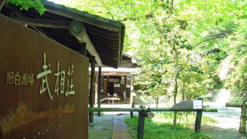 Gate of Buaiso at Tsurukawa, Machida, TOKYO